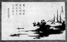 Painting by Takuan Soho